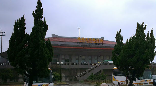 Matsu Beigan Airport, Beigan Township, Lienchiang County, Fujian Province, Republic of China